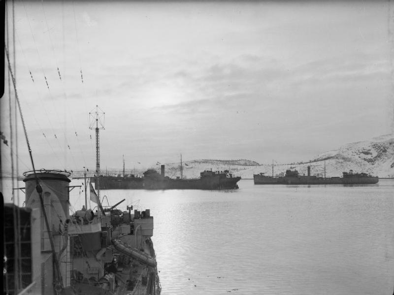 Convoys To Russia during the Second World War - Convoy Jw53, 15-27 February 1943 Two merchant ships at anchor in Kola Inlet, north Russia. Part of HMS INGLEFIELD, aboard which this photograph was taken, is in the foreground.